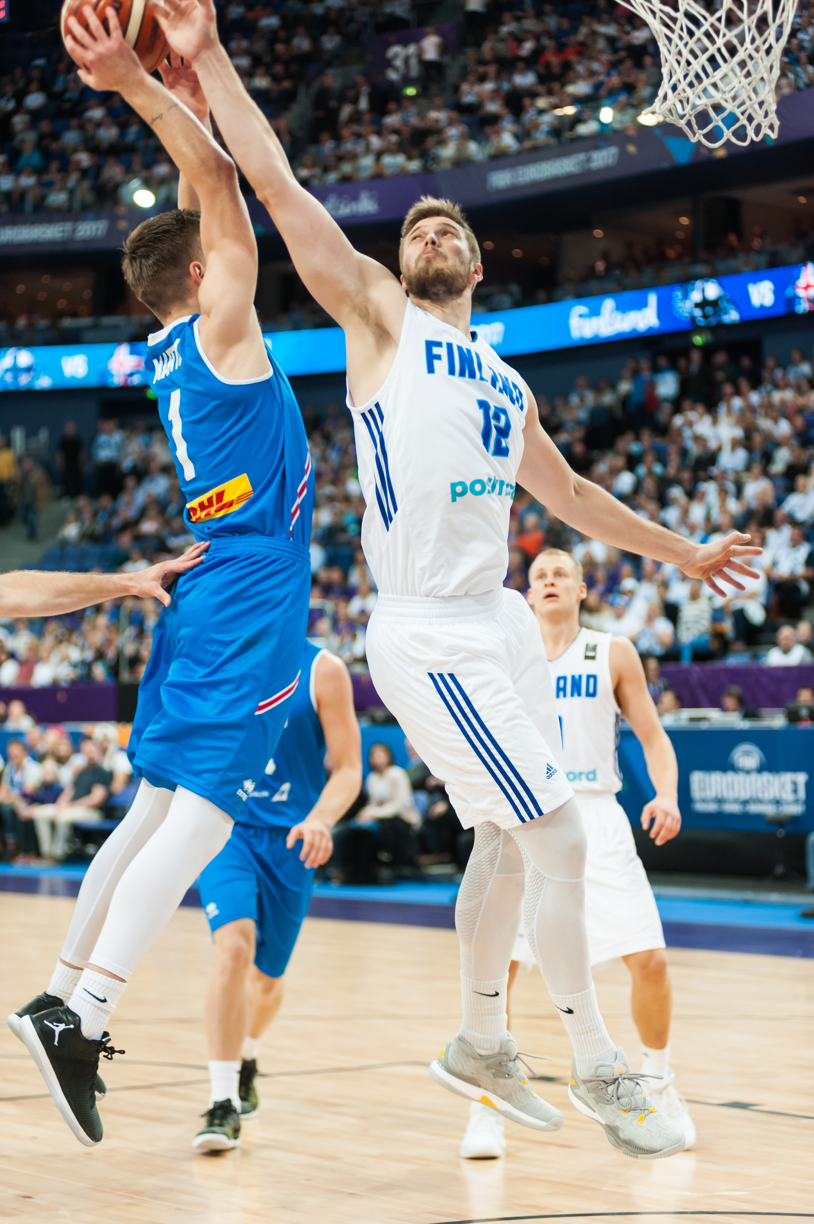 EuroBasket 2017 Group A game between Finland and Iceland at Hartwall Arena in Helsinki, Finland.